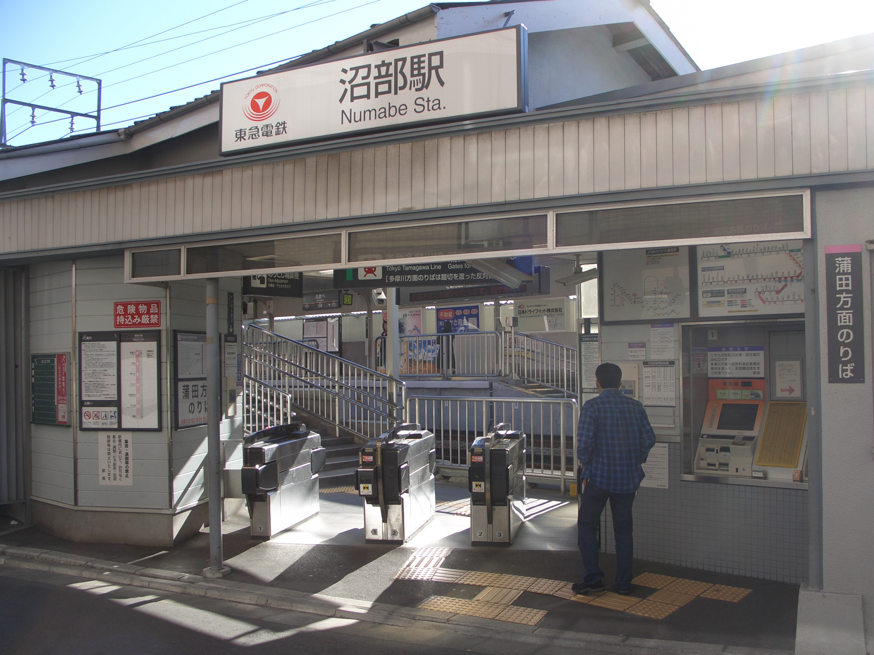 The Kamata-bound platform entrance to Numabe Station on the Tokyu Tamagawa Line